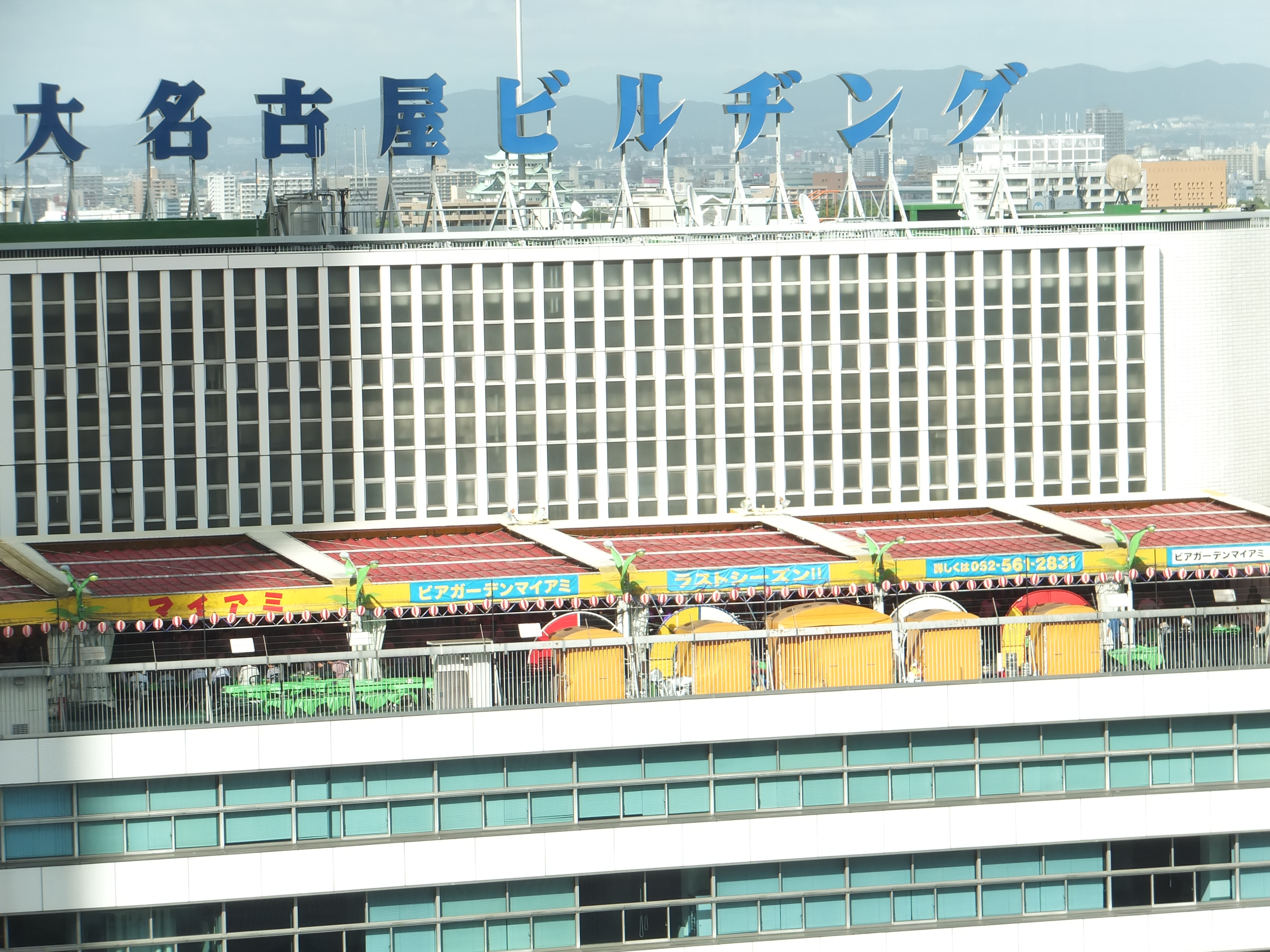 Beer Garden Miami (ビアガーデン・マイアミ), at Dai-Nagoya Building